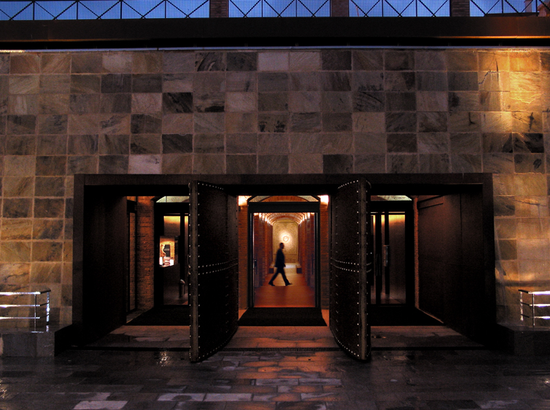 MhV Main facade